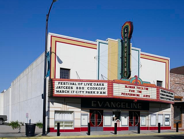 Evangeline Theatre, New Iberia, Louisiana, USA